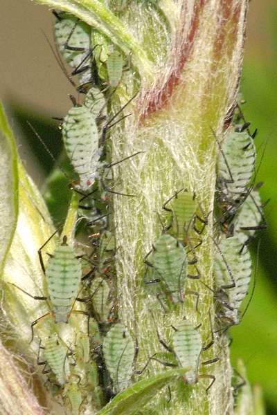 Macrosiphoniella artemisiae from Commanster, Belgian High Ardennes .